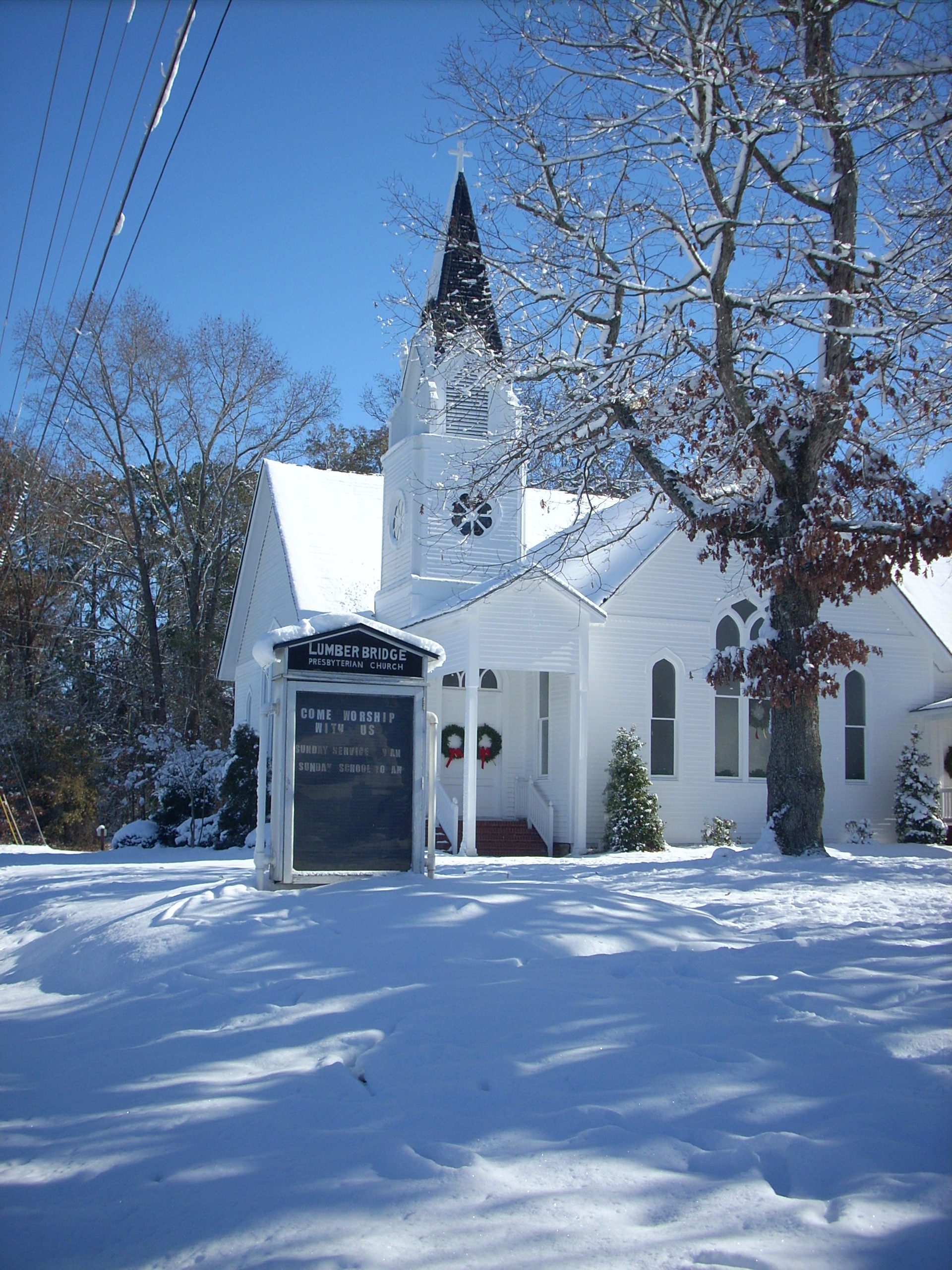 Church in Lumber Bridge, NC on NC Highway 71